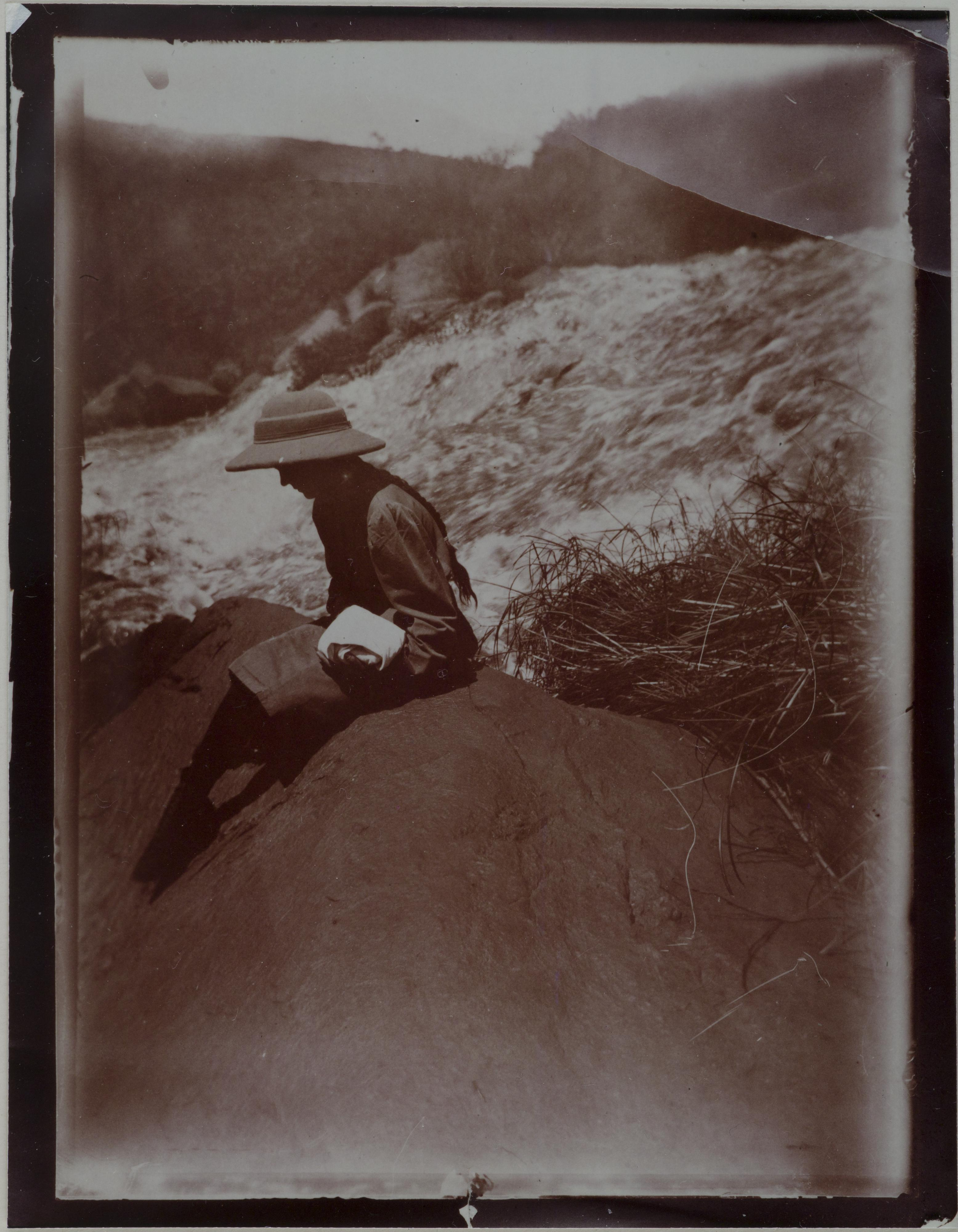 Tyttö, todennäköisesti Kirsti Gallen-Kallela, istuu kivellä kosken partaalla 1900-luvun ensimmäisellä vuosikymmenellä. Maisema, Kirstin ikä ja hellekypärä viittaavat siihen, että kuva saattaisi olla Gallen-Kalleloiden Afrikan-matkalta (1909-1911). kuvauspaikka: ajoitus: 1900-1909 kuvaaja: kuva-alan mitat: 124x91mm tekniikka: merkintöjä: inventointinumero: Kot. 2/54 kokoelma: Akseli Gallen-Kallelan valokuvakokoelma tutki lisää / explore further: Tiedätkö lisää tästä kuvasta? Kerro meille! Do you have information on this photo? Let us know!